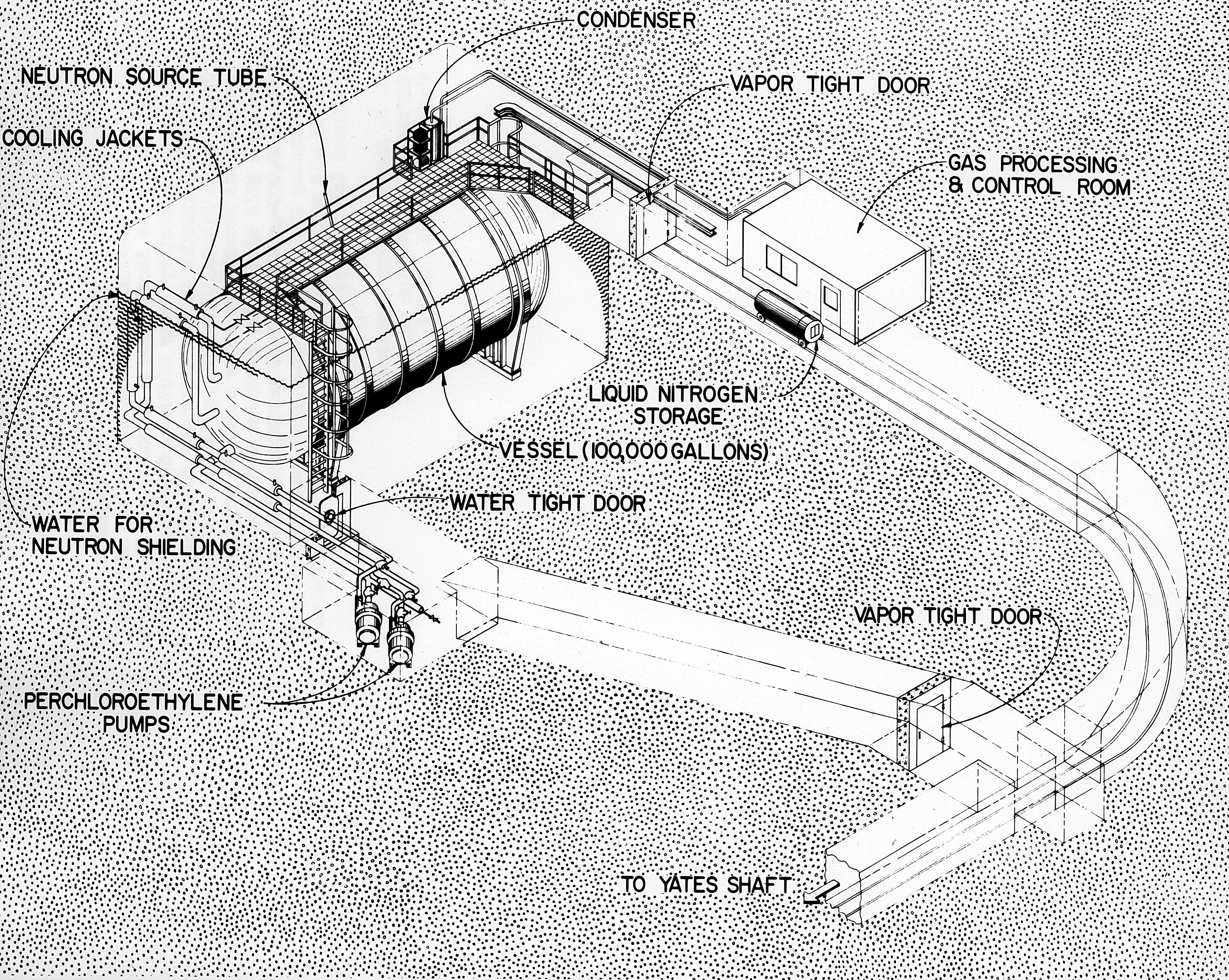 The first chemical detection of neutrinos produced by the sun have been recorded at the Atomic Energy Commission's Brookhaven National Laboratory solar neutrino detector.